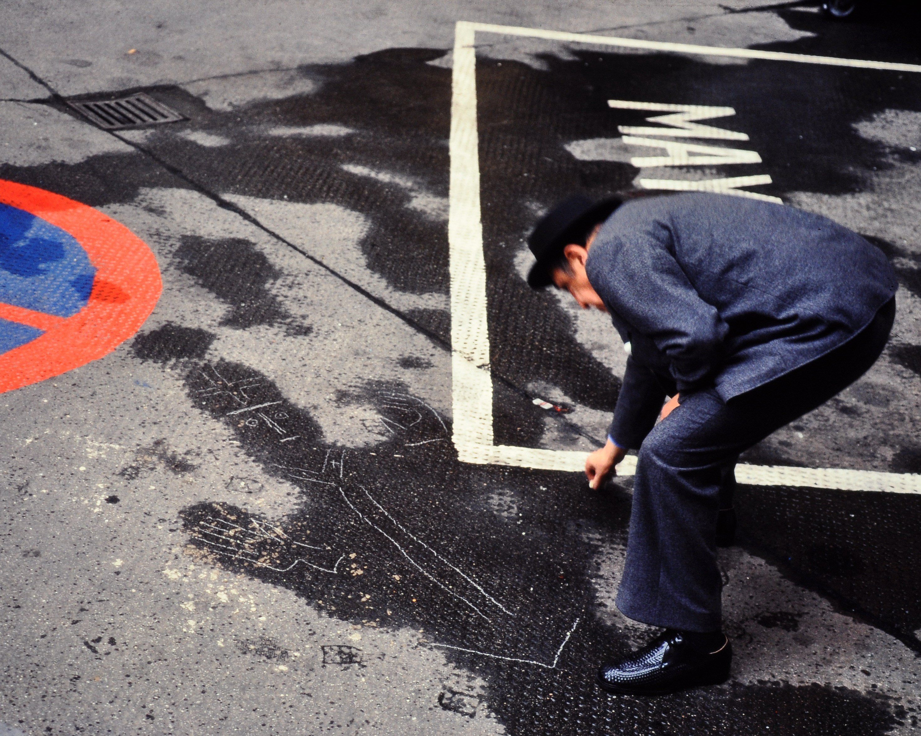 The artist Josef Oberberger as a pavement artist